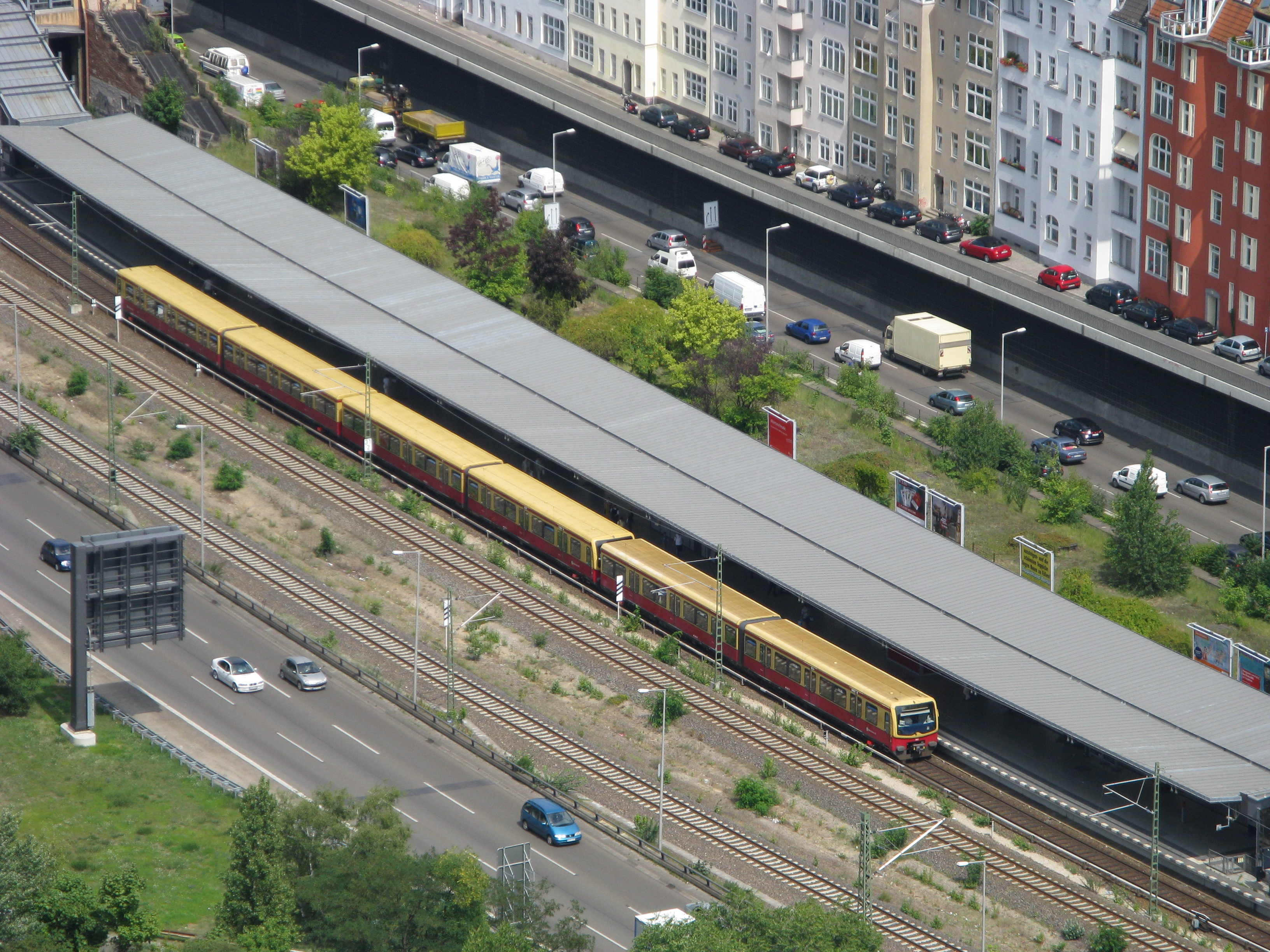 Messe Nord/ICC railway station seen from the Berliner Funkturm.